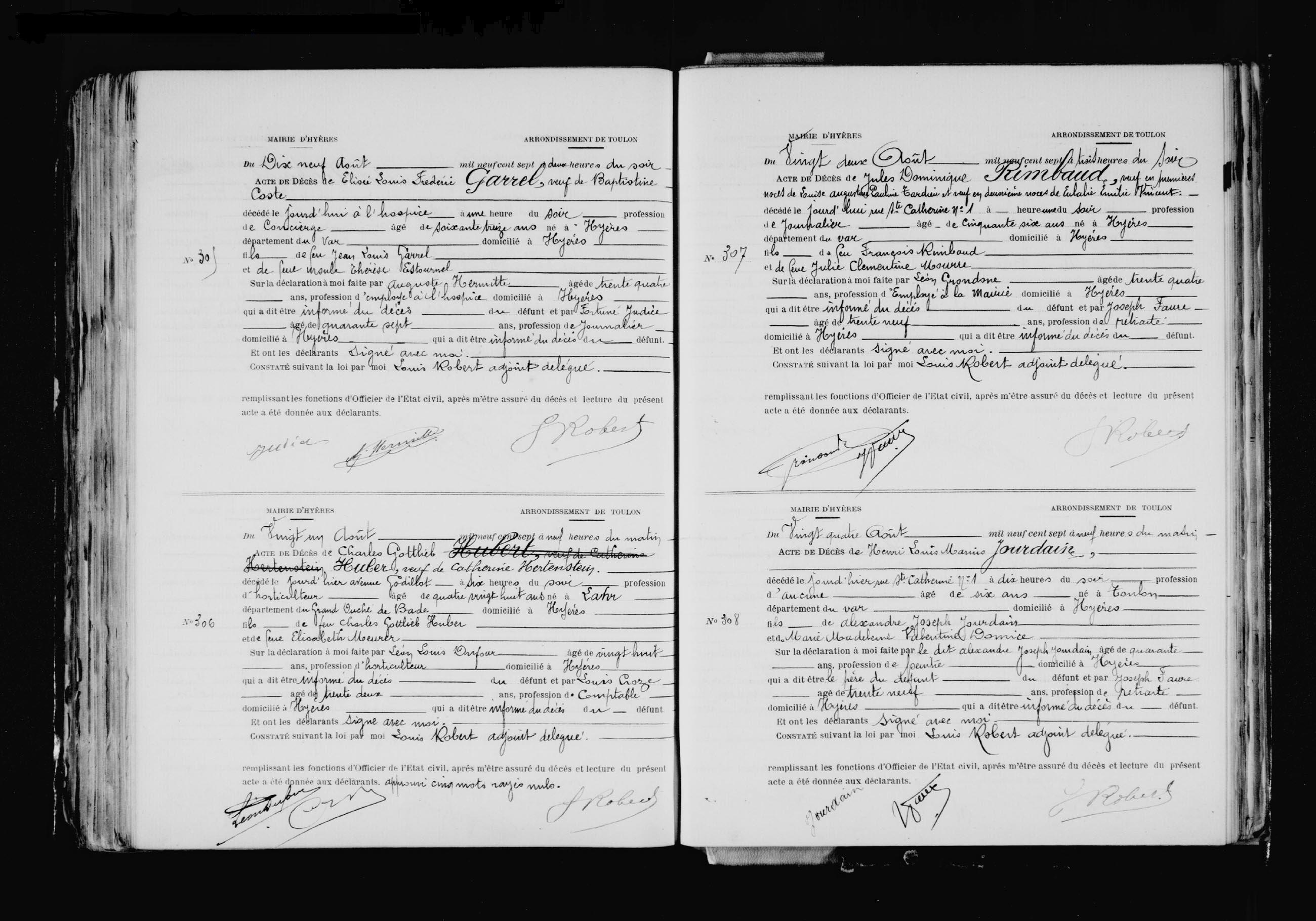 acte décès Huber 1907